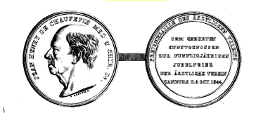 Medal to honor Johann Heinrich de Chaufepié on the occasion of his 50th anniversary as Dr.med., 1844, scan from Hamburgische Münzen und Medaillen: Abth. Die Münzen und Medaillen seit dem Jahre 1753 Hamburg 1855